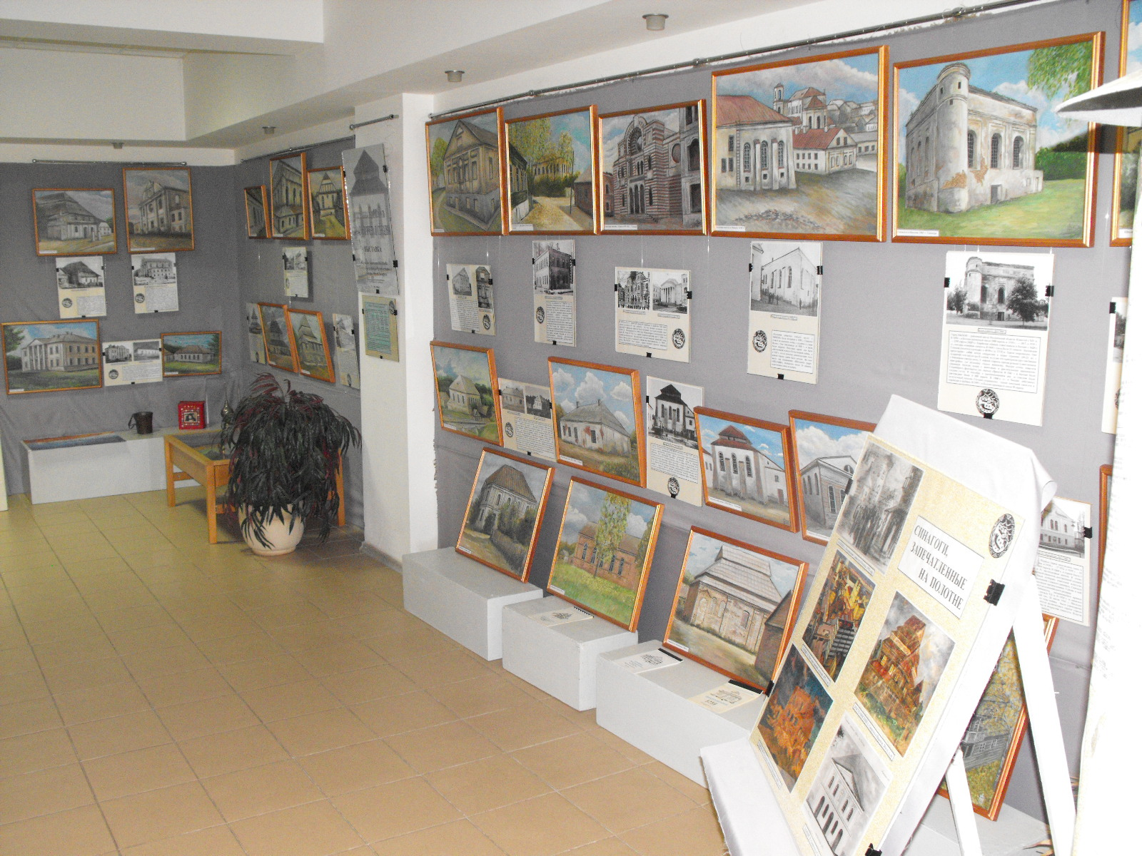 Museum of jewish history and culture in Belarus